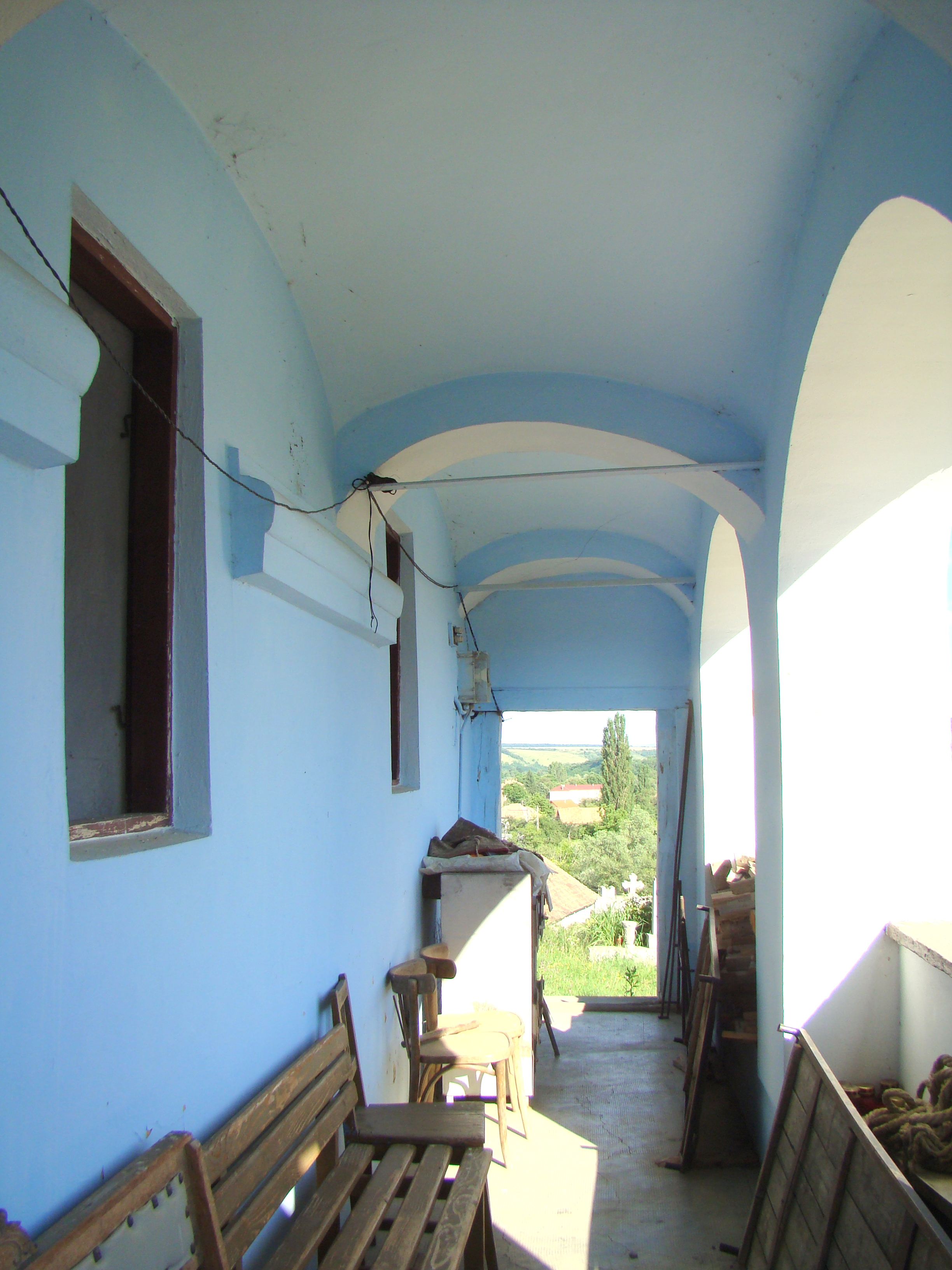 Church of the Dormition in Livezile, Alba county, Romania